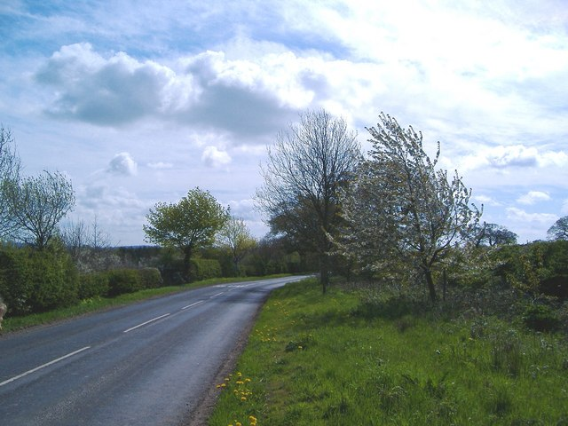 Guy Lane, Waverton. Guy Lane, Waverton, looking east towards Bruen Stapleford. This pretty back lane is also unfortunately a "rat run" for local commuters due to the intense congestion on the nearby A51 trunk road. Nevertheless, it retains the features of the country lanes in the Gowy flood plain - hawthorn hedges and wild flowers along the verges, especially in spring. The "Crocky Trail" adventure centre lies a little behind the photographer and the road ahead leads to Martin's Lane and Ford Bridge.